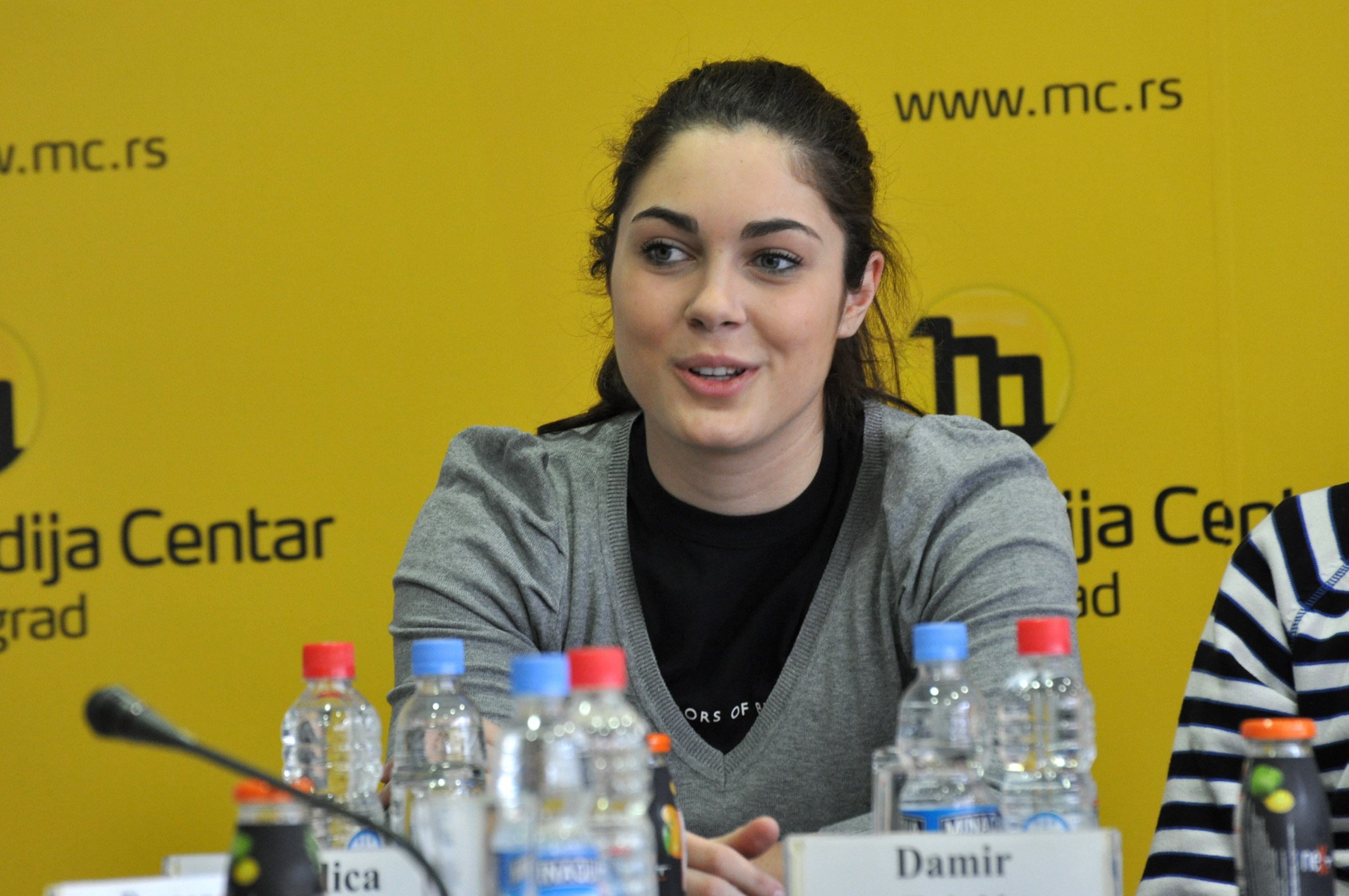 Milica Mandić